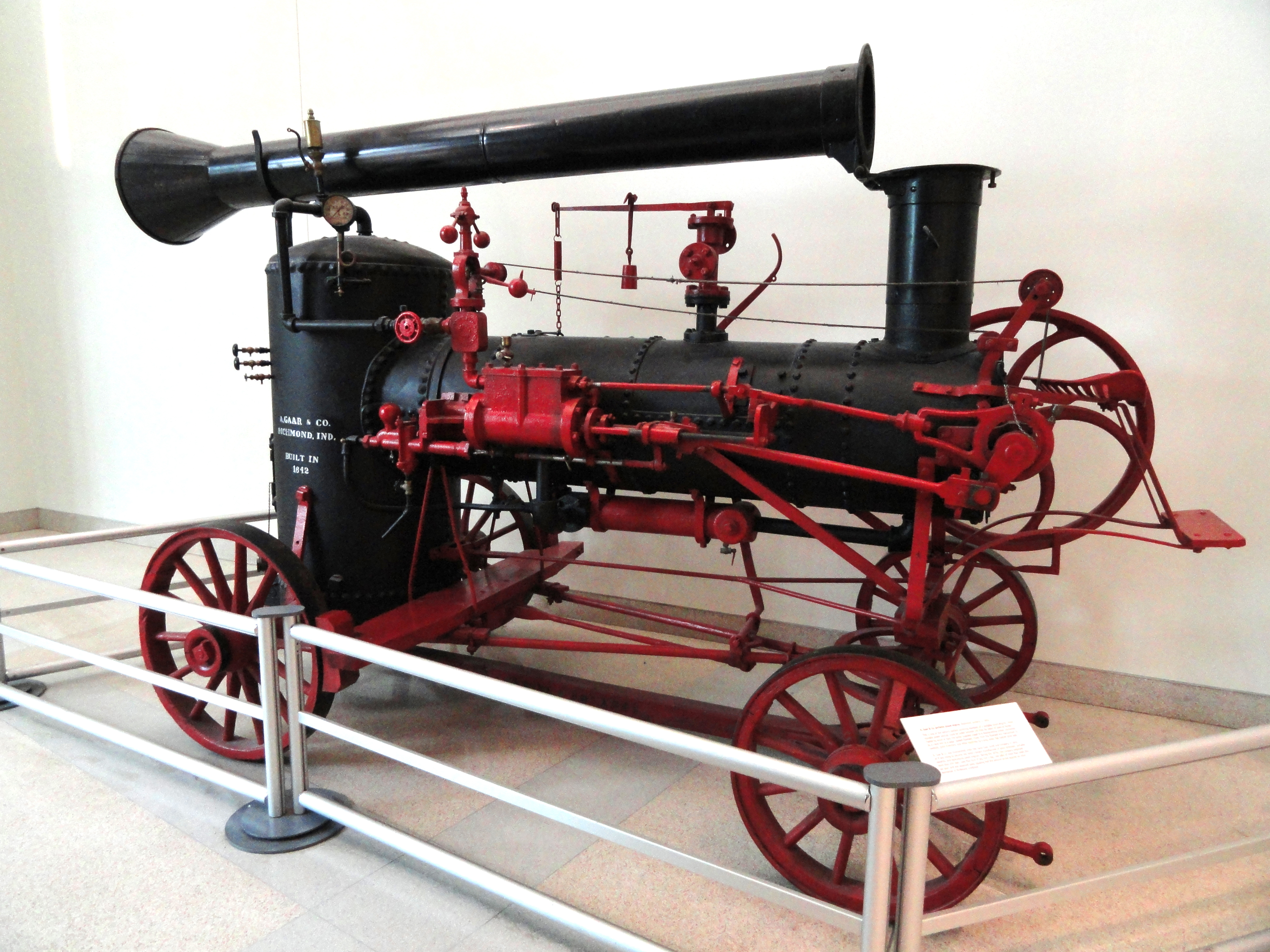 A. Gaar & Co. portable steam engine, circa 1852. Indiana State Museum, 650 West Washington Street, Indianapolis, Indiana, USA.